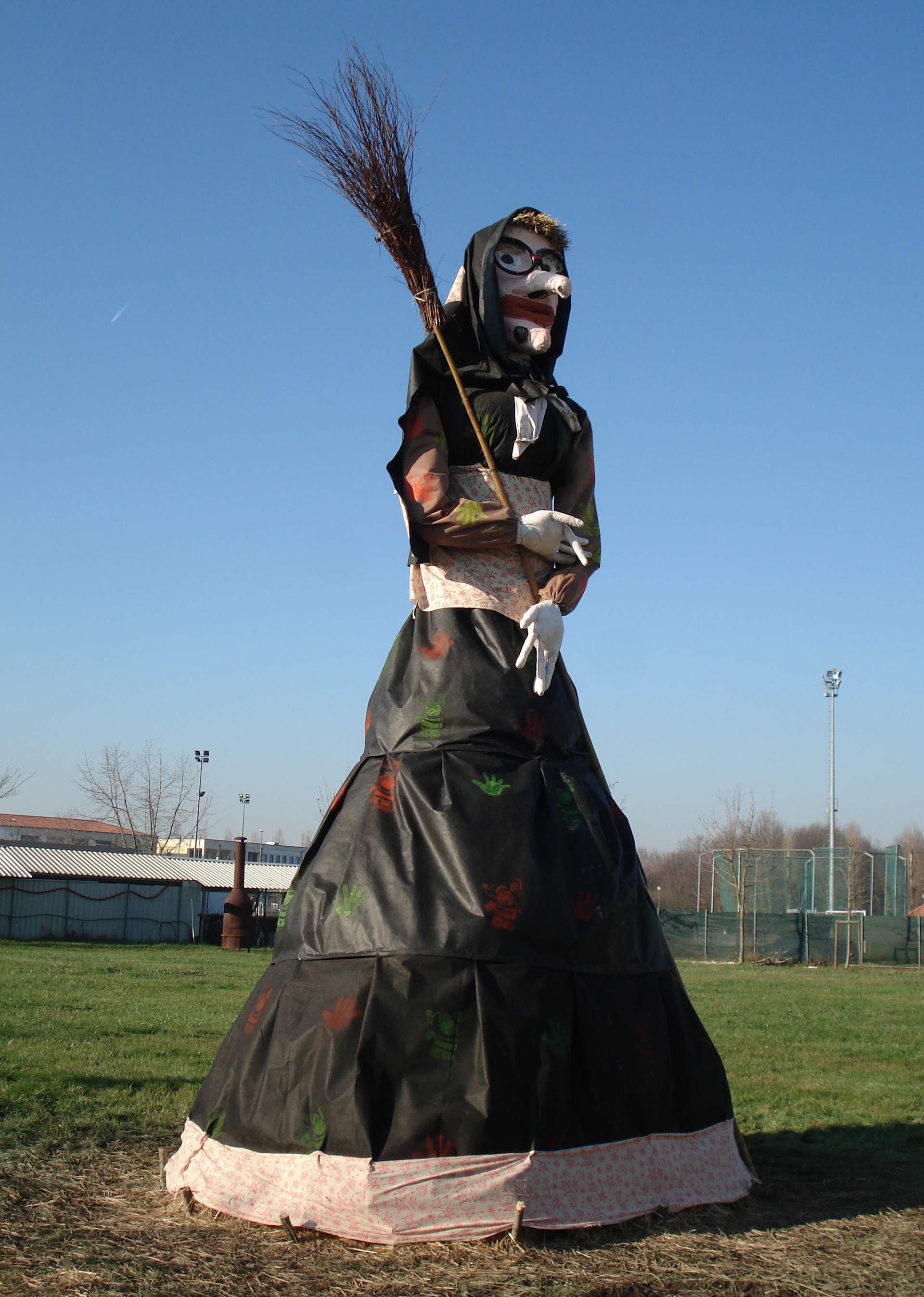 Burn the epiphany.